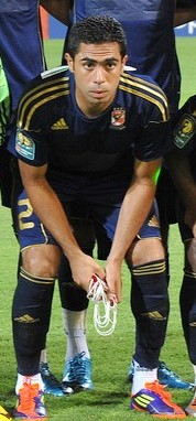 Fathi 2011